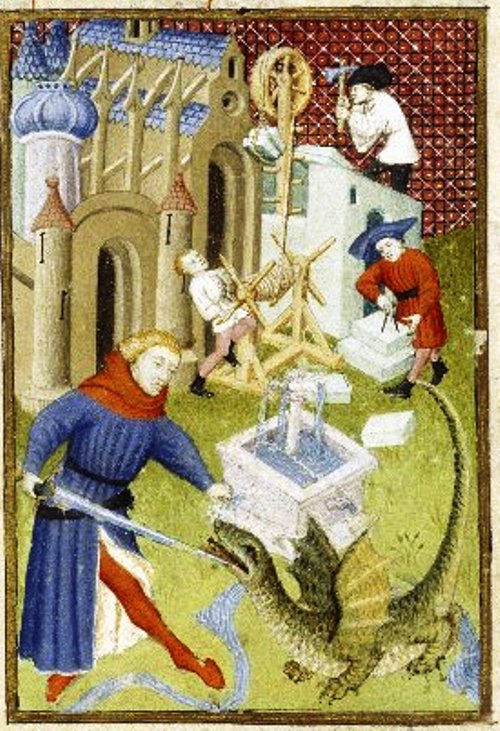 Cadmus slays the dragon at the fountain